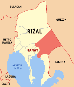 Locator map of Tanay in Rizal, Philippines.